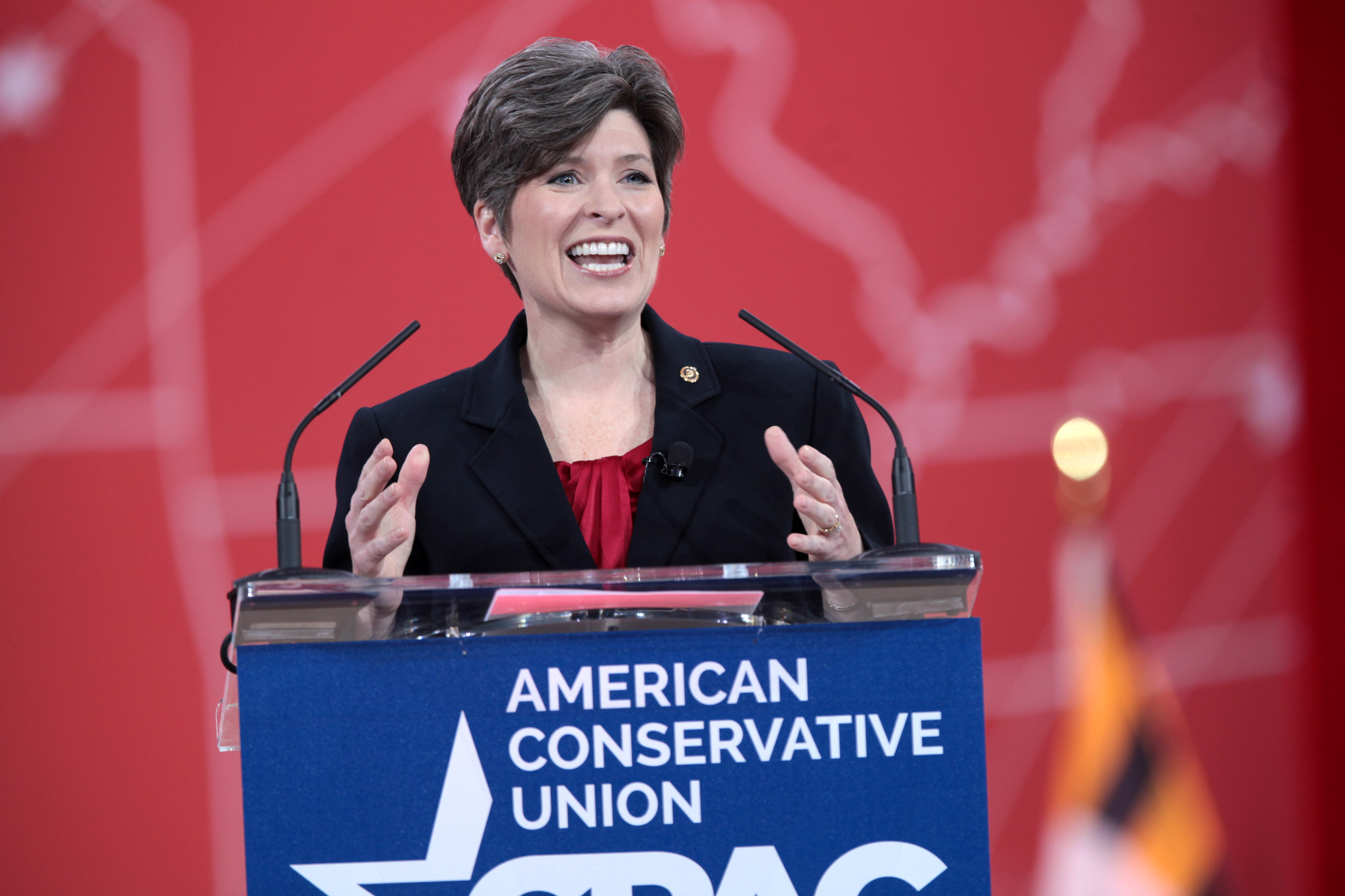 U.S. Senator Joni Ernst of Iowa speaking at the 2015 Conservative Political Action Conference (CPAC) in National Harbor, Maryland.